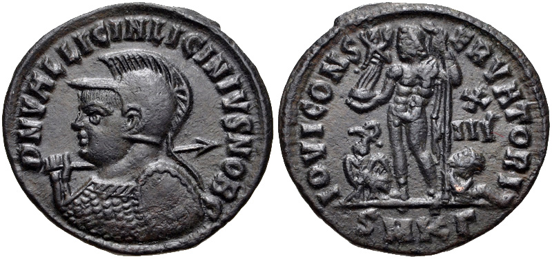 Licinius II. Caesar, AD 317-324. Æ Follis (20mm, 2.55 g, 12h). Cyzicus mint, 3rd officina. Struck AD 321-324. Helmeted and cuirassed bust left, holding round shield and spear over shoulder / Jupiter standing facing, head left, holding crowning Victory and scepter; at feet to left, eagle standing left, head right, holding wreath in beak; at feet to right, bound captive seated right; -/(X/III’)//SMKΓ. RIC VII 18. Near EF.